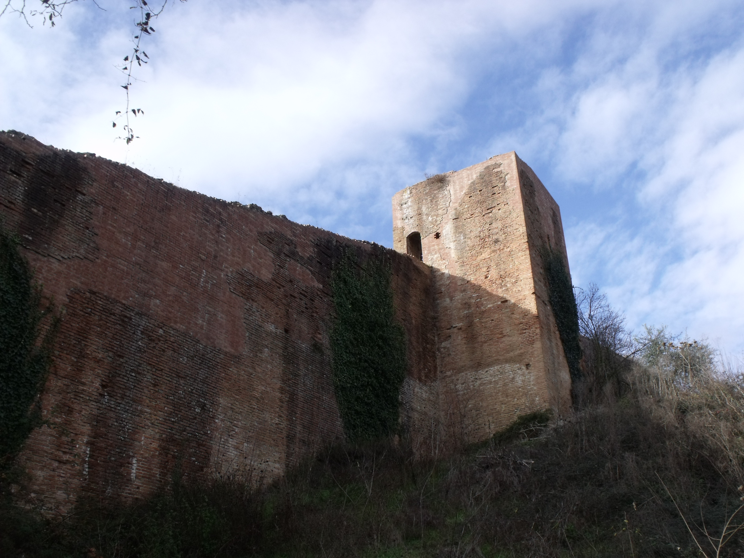 City Wall of Siena near San Francesco Church